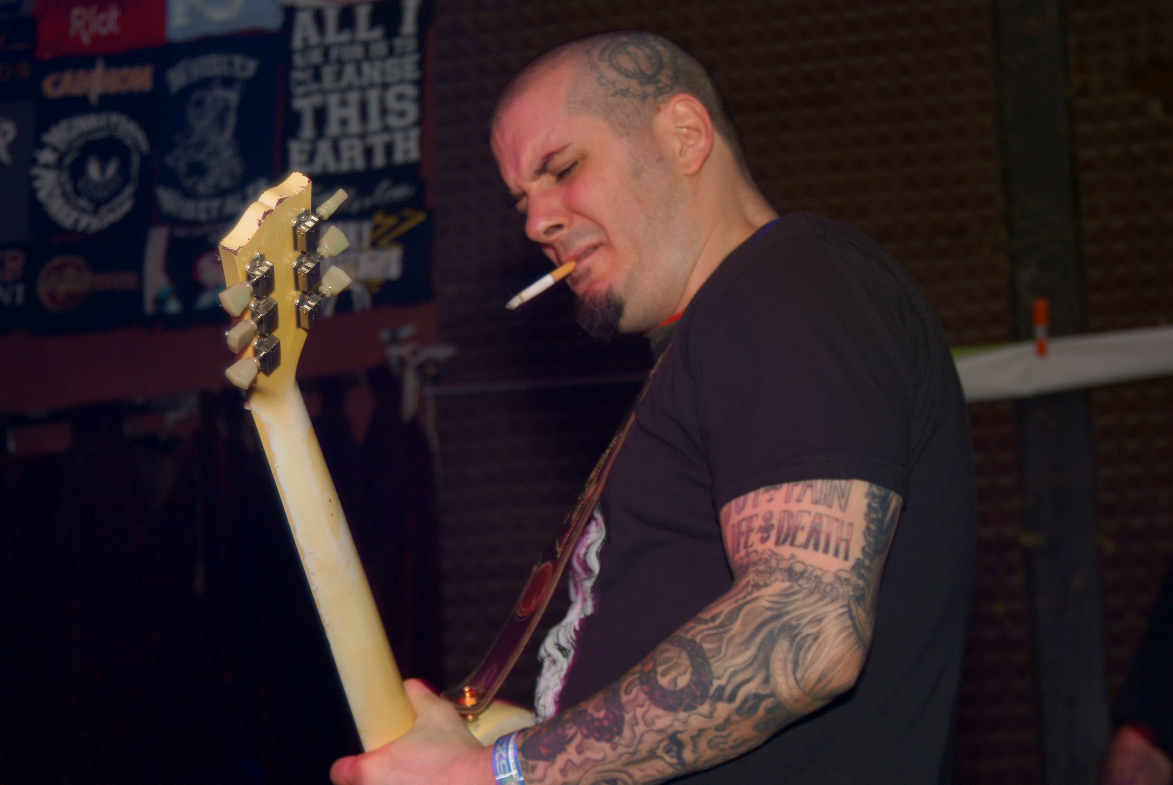 Philip Anselmo at Red Eyed Fly